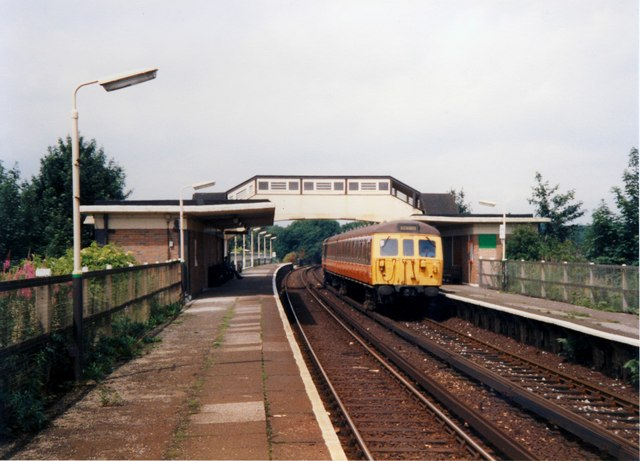 Bowker Vale Metrolink station Original description: Bowker Vale station 1988